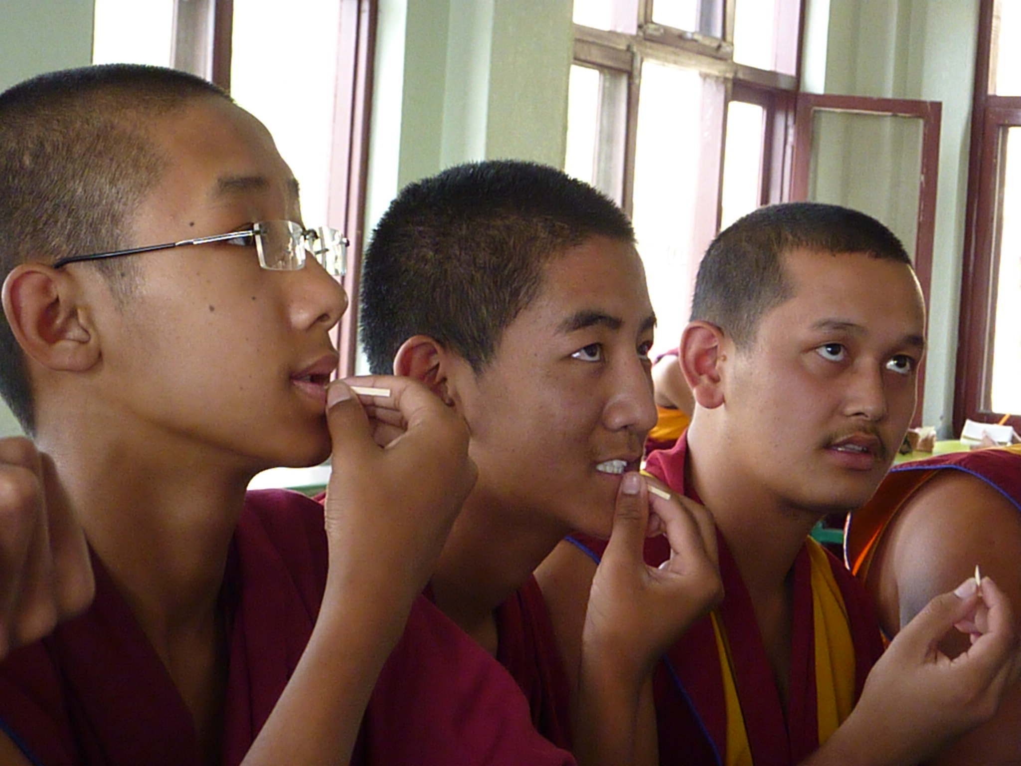 Learning by doing - Nepal - Kopan Monastry - Oral Health Promotion